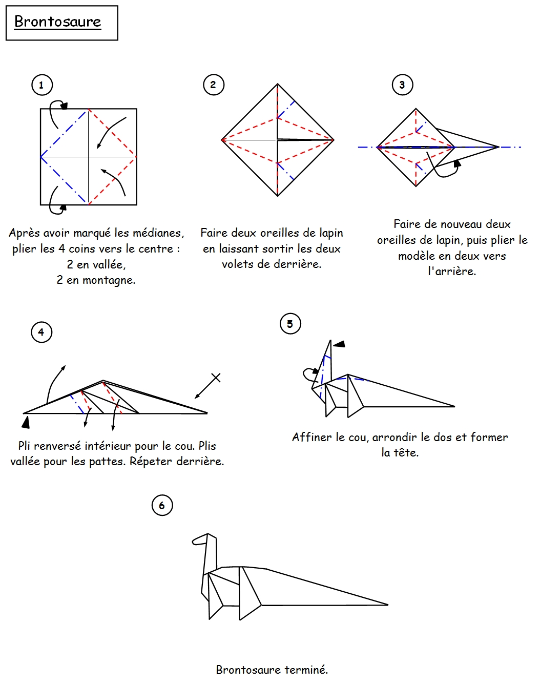 Origami diagram of brontosaur (in french)